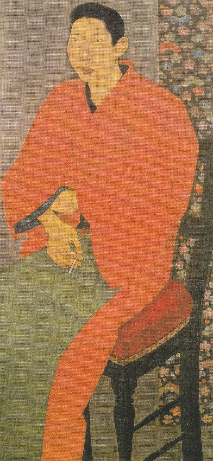 Portait of Ukichi